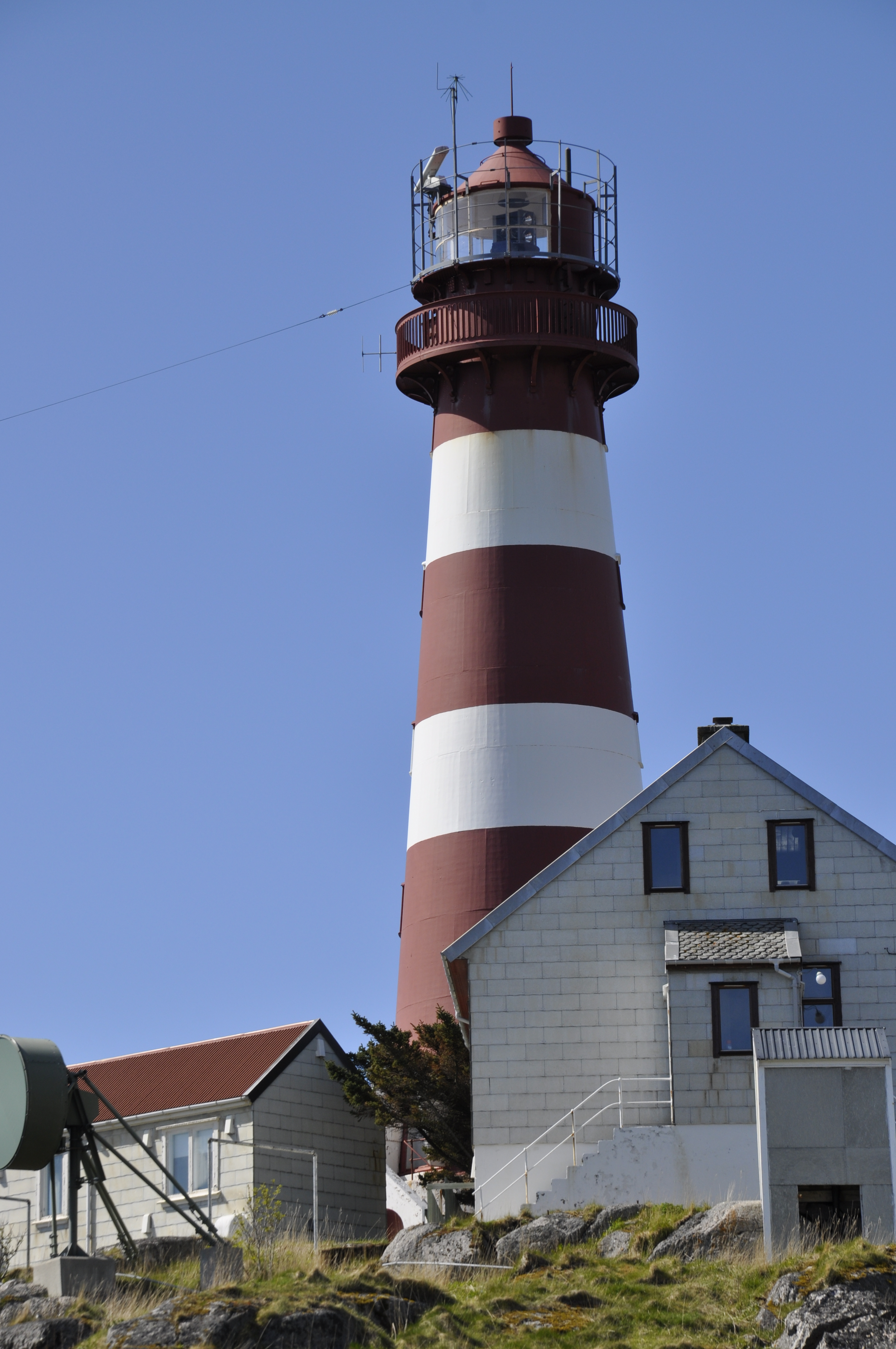 The lighthouse of Skrova, Lofoten, Norway